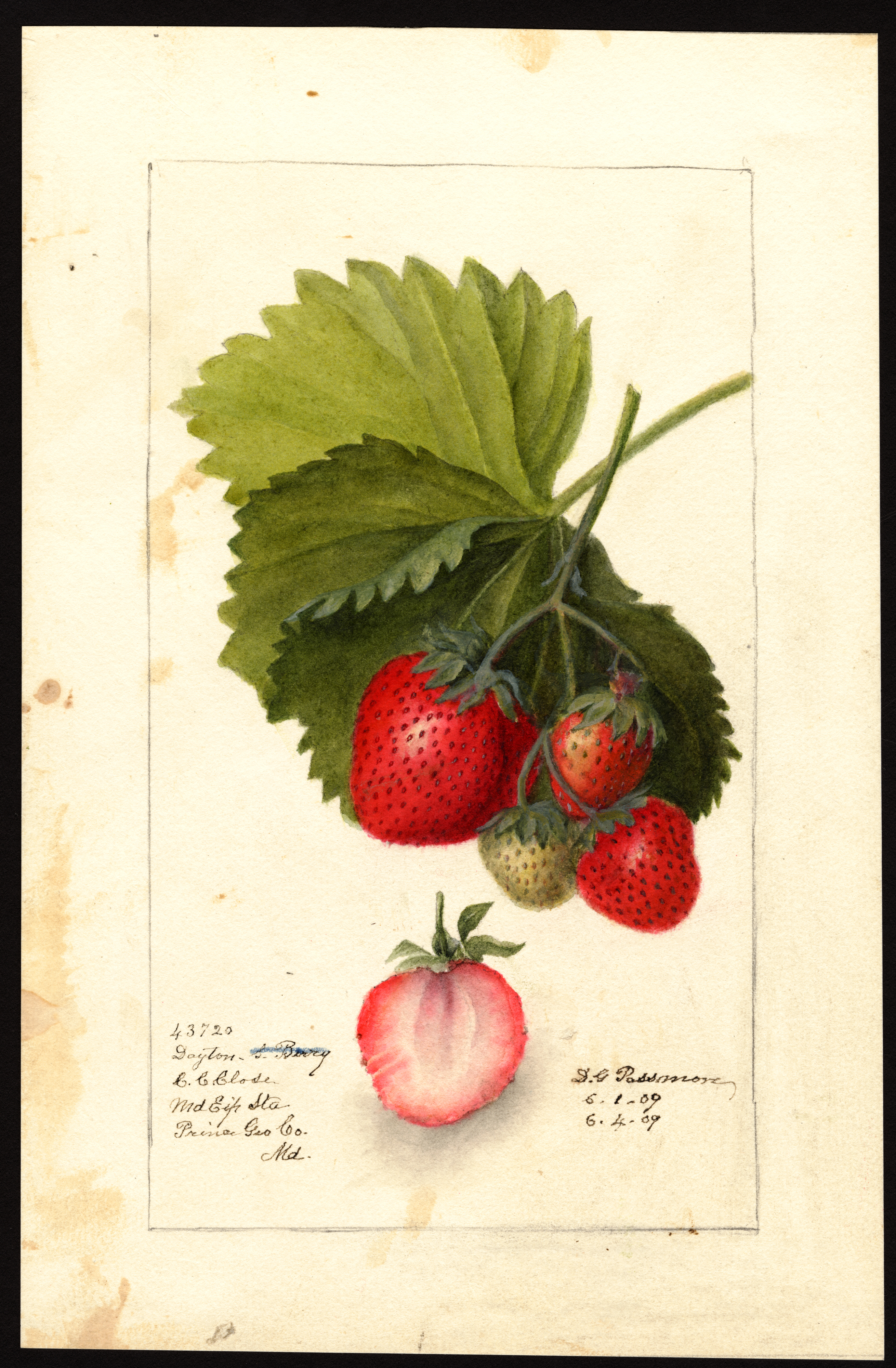 Image of the Dayton variety of strawberries (scientific name: Fragaria), with this specimen originating in College Park, Prince Georges County, Maryland, United States. Source: U.S. Department of Agriculture Pomological Watercolor Collection. Rare and Special Collections, National Agricultural Library, Beltsville, MD 20705.